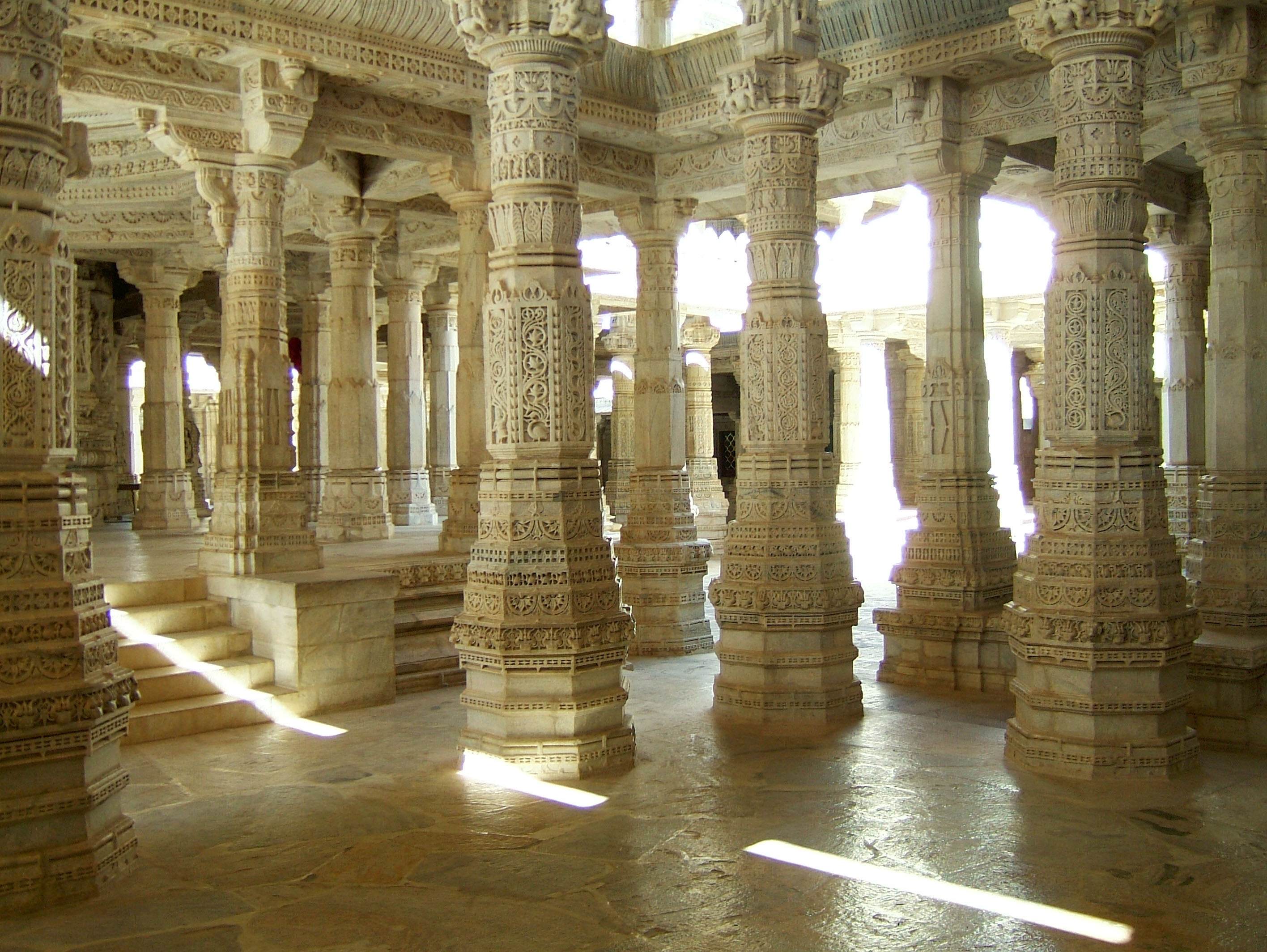 Jain Marble Temple pillar Frescoes, Ranakpur, Pali district, India